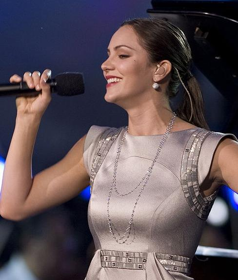 Singer Katherine McPhee and pianist Lang Lang perform at the National Memorial Day Concert in Washington, D.C., May 24, 2009.